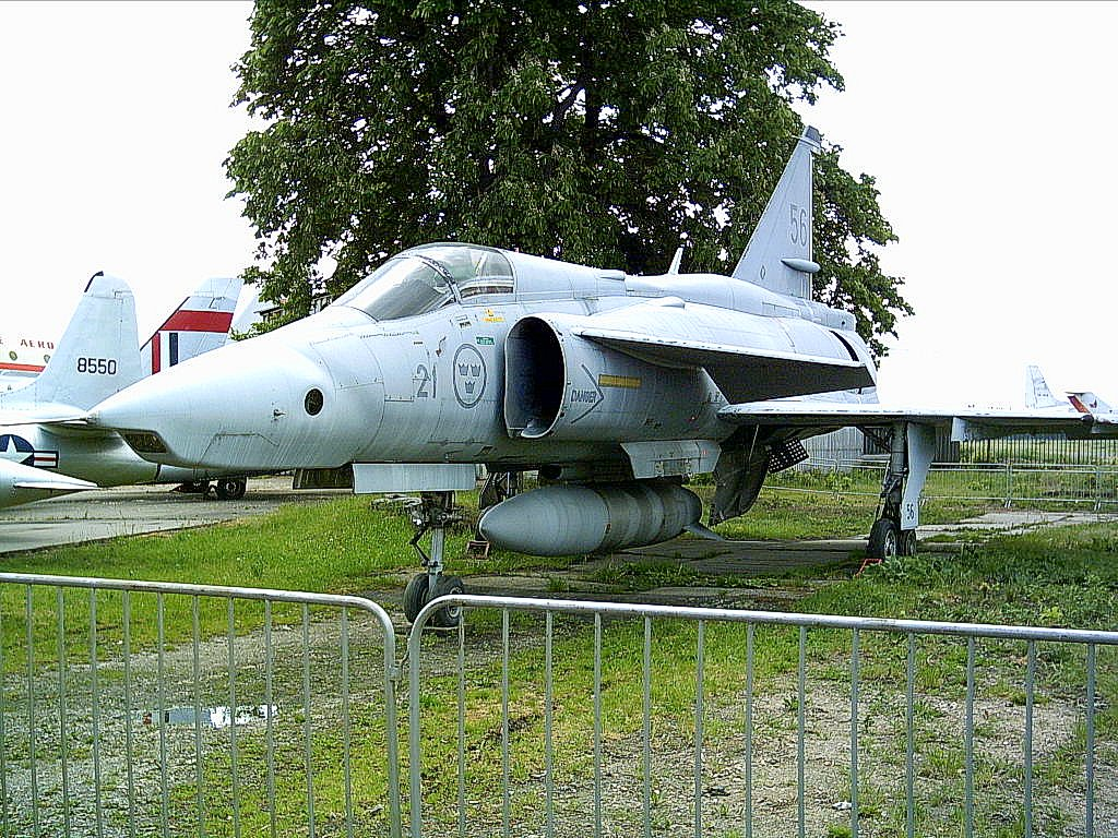 Saab AJSF 37 Viggen, Kbely museum, Prague